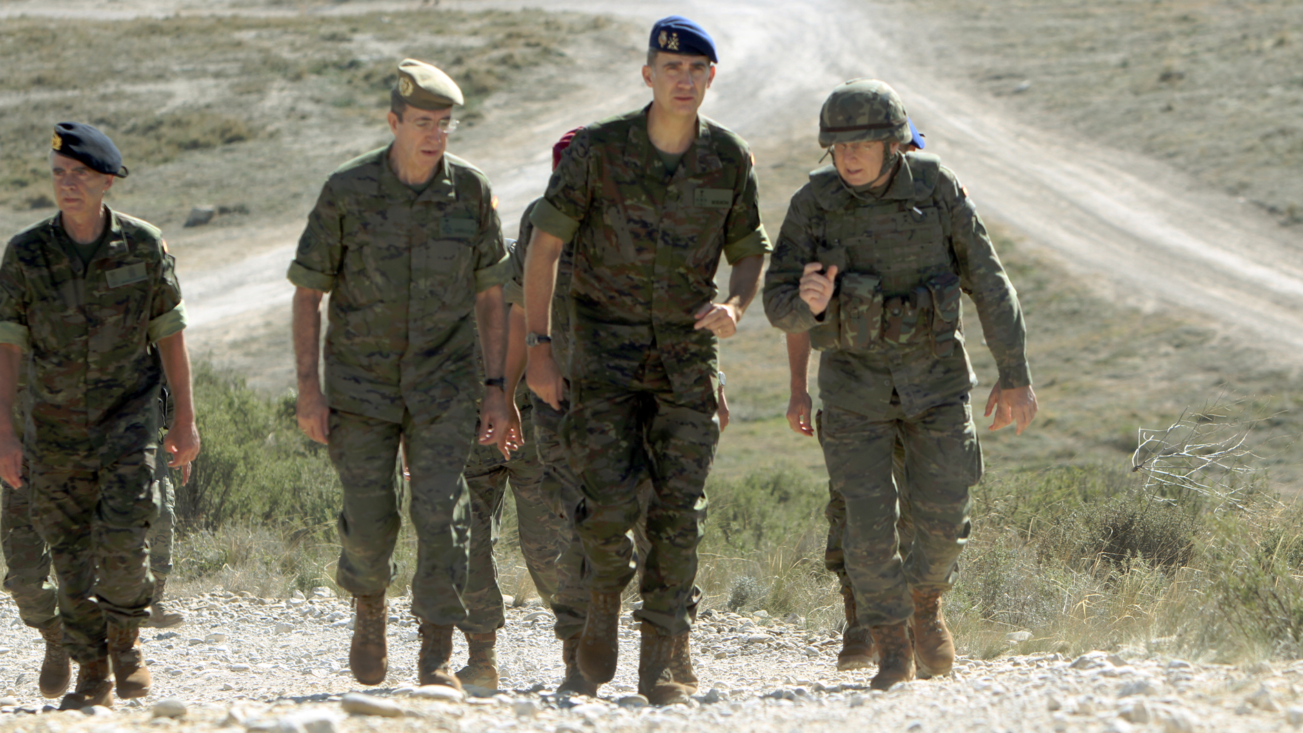 Trident Juncture 2015 - Left to right: Chief of Defense General Admiral Fernando García Sánchez, Chief of Staff of the Army Jaime Dominguez Buj, King Felipe VI and the Commander of the 7th Reconnissance Cavalry Group of the VII Light Infantry Brigade "Galicia". NATO photo by Henk van der Velde